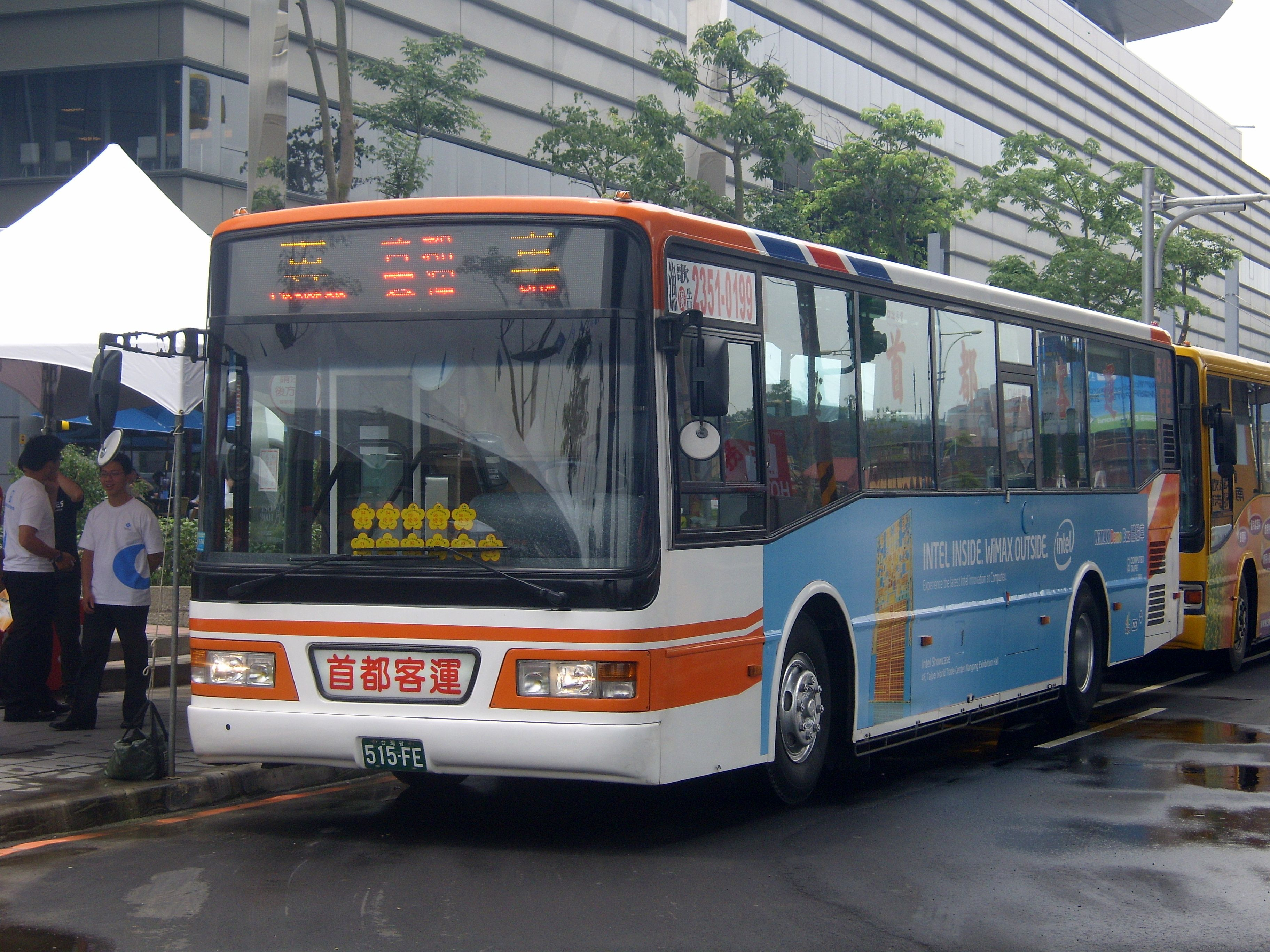 2008 WiMAX Expo Taipei: Shuttle Bus 515-FE.中文（台灣）: 首都客運2005年HINO ERK2JRL大客車515-FE行駛2008 WiMAX Expo Taipei展場接駁公車。